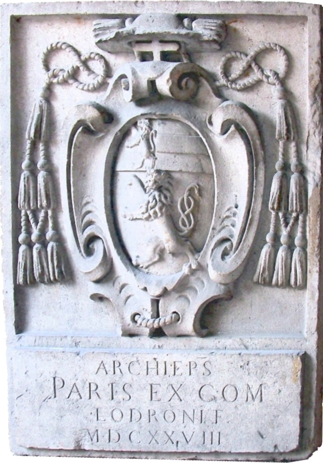 The coats of arms of Paris von Lodron as stone relief